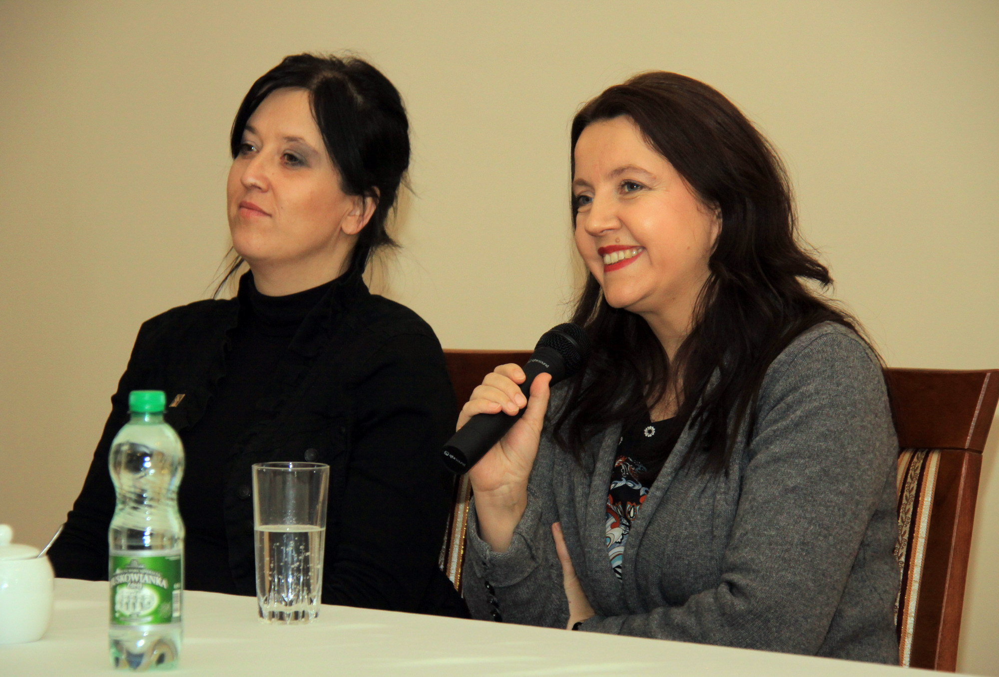 Joanna Lichocka - Polish TV journalist and columnist release and Anita Czerwinska - the head of the Warsaw Club of "Gazeta Polska". Meeting with residents in Busko Zdrój 1lutego 2013.